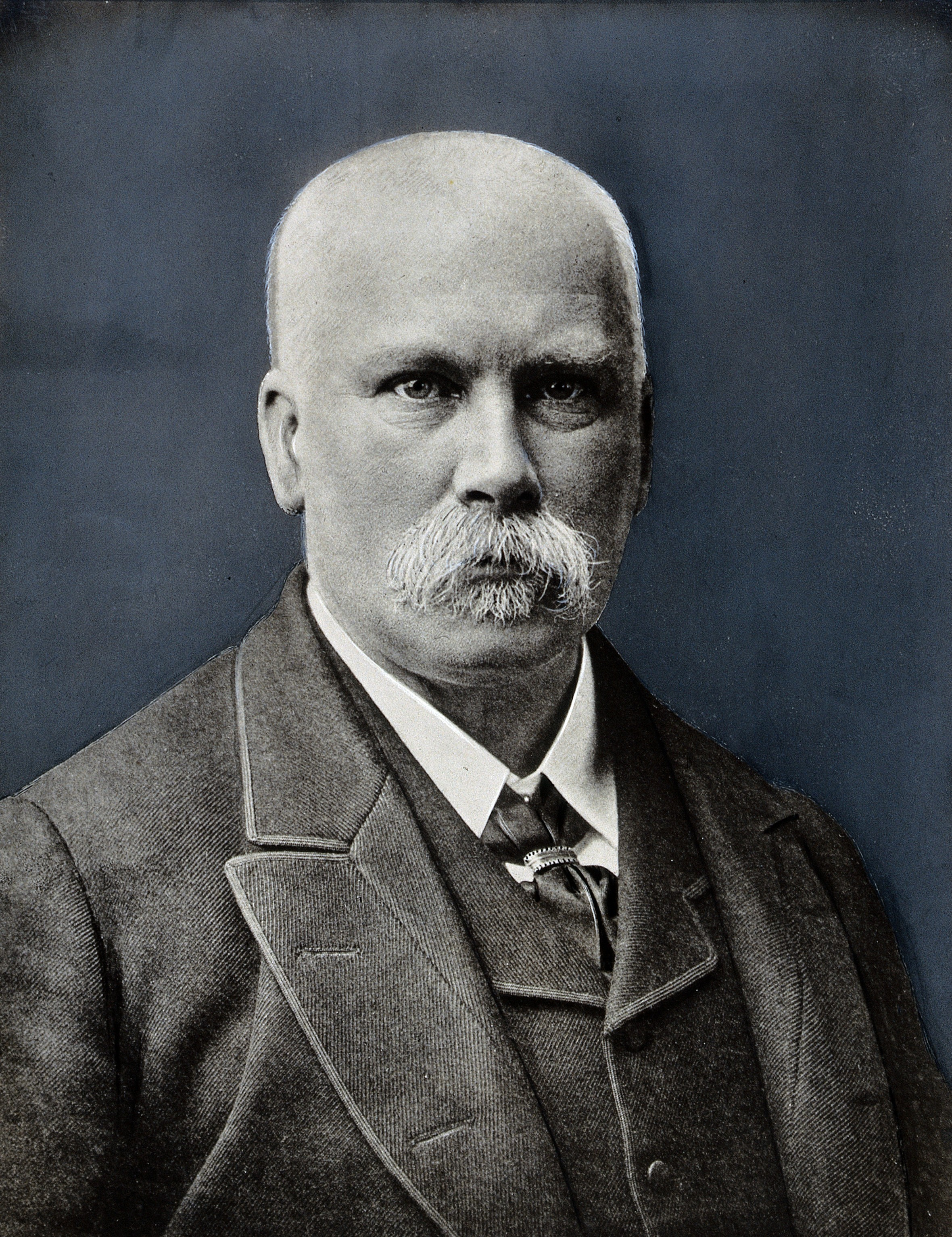 David James Hamilton. Photograph. Iconographic Collections Keywords: portrait photographs